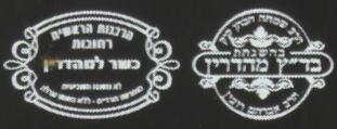 Kosher - food label